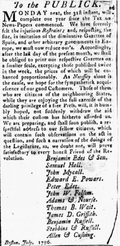 Newspaper item related to tax on newspapers; Edward E. Powars; Benjamin Edes, Samuel Hall, Peter Edes, John W. Folsom, Adams & Nourse, Thomas B. Wait, James D. Griffith, Benjamin Russell, Setbbins & Russell, Allen & Cushing